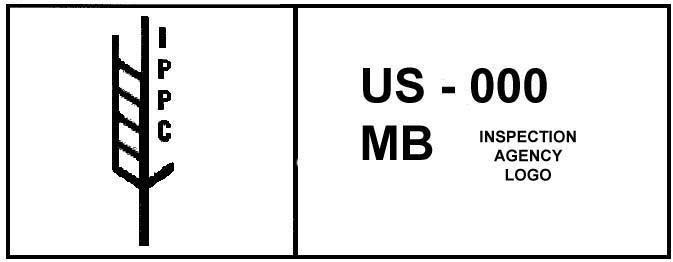 What is a quality/treatment mark? For both heat treatment (HT) and methyl bromide (MB) fumigation programs , the quality/treatment Mark consists of the a) agency trademark which is the identifying symbol, logo or name of the accredited agency, b) the Facility Identification which is the WPM product manufacturer name, brand or assigned facility number, c) the HT or MB mark, d) the country code which is the two letter ISO country abbreviation, e) the IPPC Approved international symbol for compliant wood packaging material and f) DUN when indication is used for dunnage.